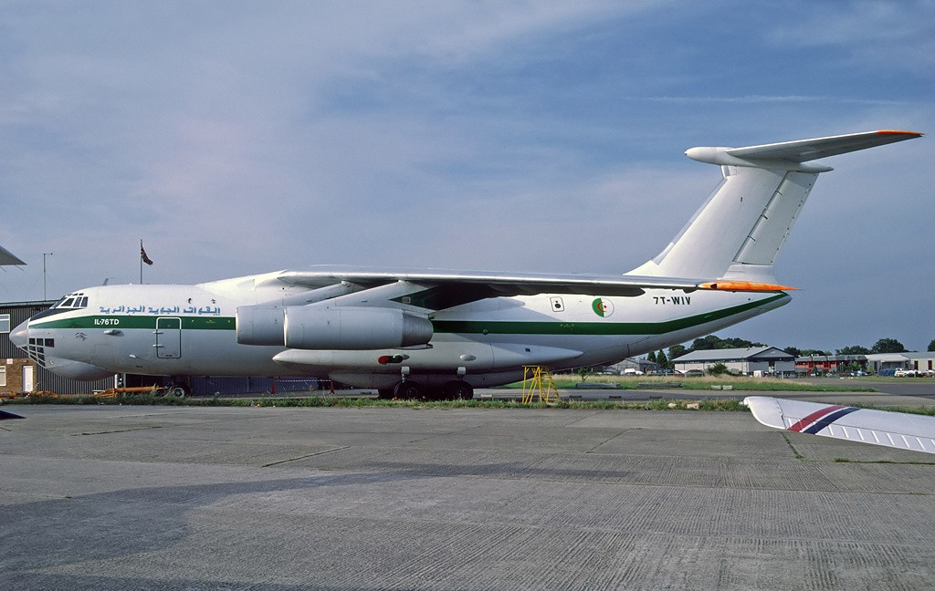 Aircraft Algeria - Air Force Ilyushin Il-76TD Reg.: 7T-WIV MSN: 1043419649 Location & Date Southend - Rochford (SEN / EGMC) England, United Kingdom - July 1999